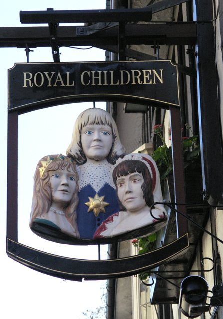 Royal Children - sign. An unusual sculptured pub sign, the children have different expressions on each side. For the pub see here 656775 or here